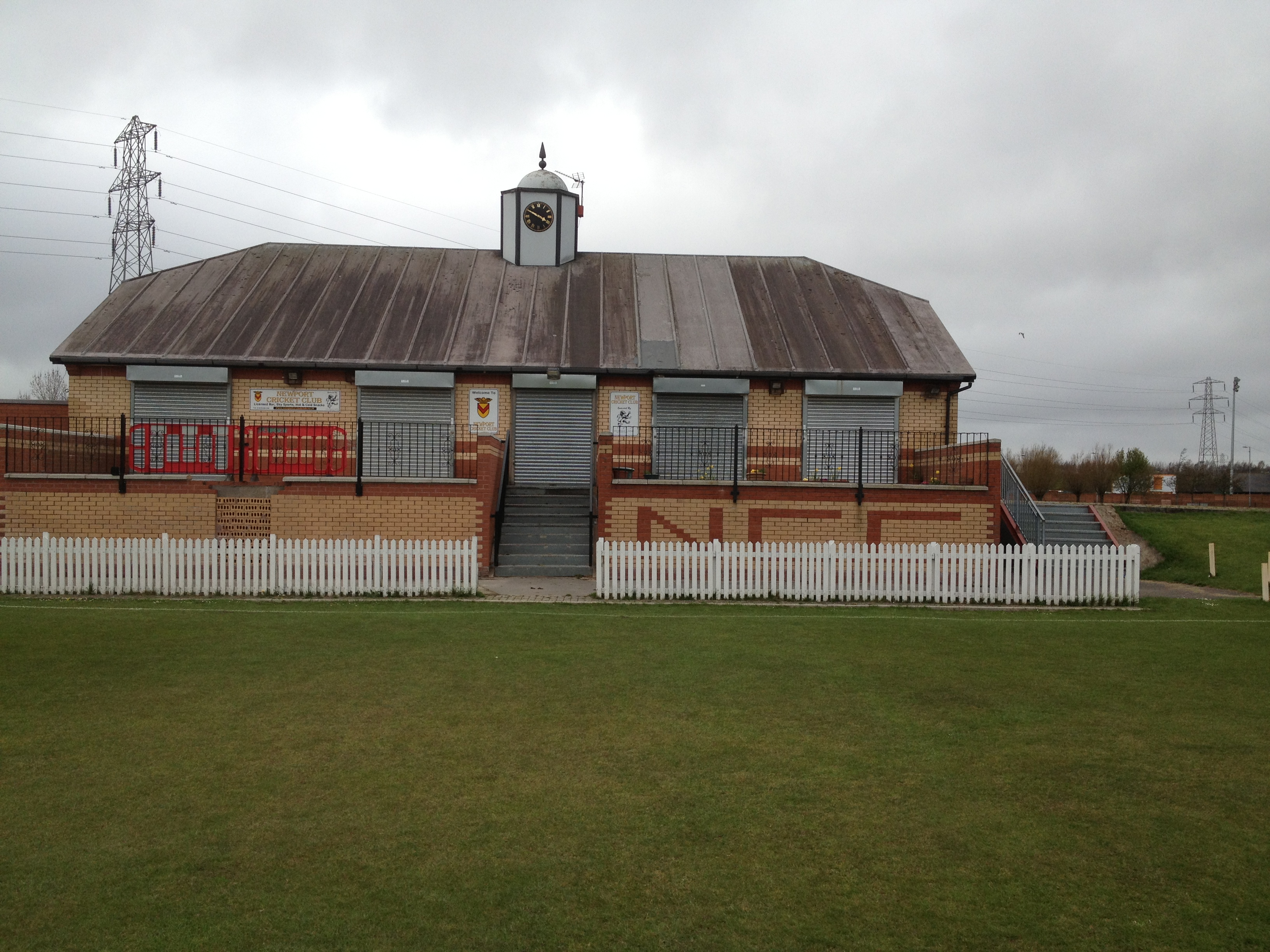 Newport Cricket Club Pavilion, Newport, South Wales. 2013